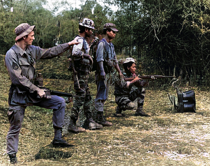 Degars training with US Army Rangers